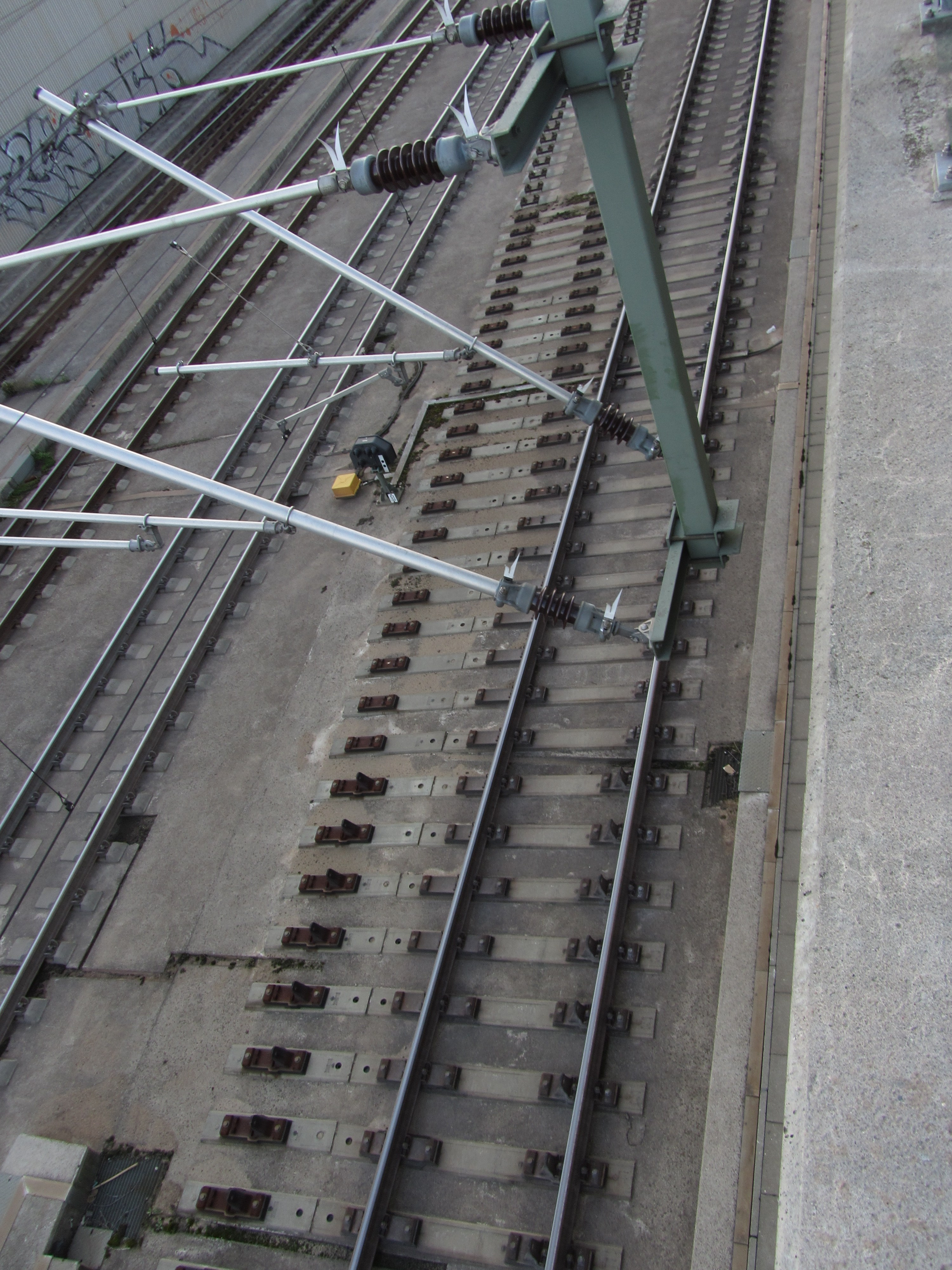 Preparation for a later to be established link between two tracks just outside the northern mound of the Berlin north-south railway tunnel serving the Berlin central station